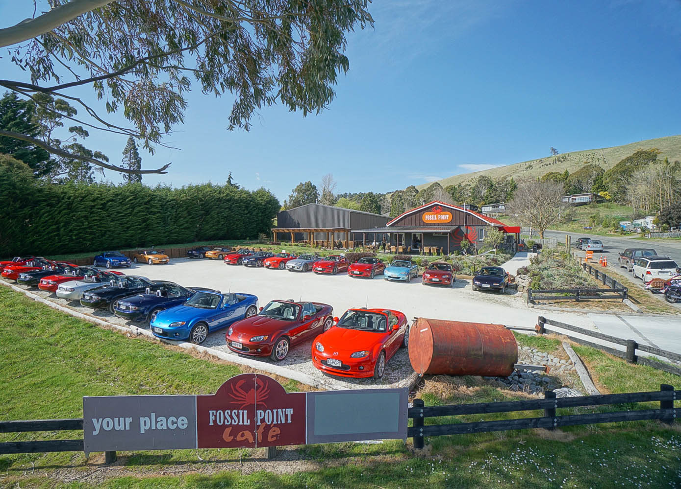 viewed from main State Hwy 1 border looking up Valley Rd in a mainly easterly direction